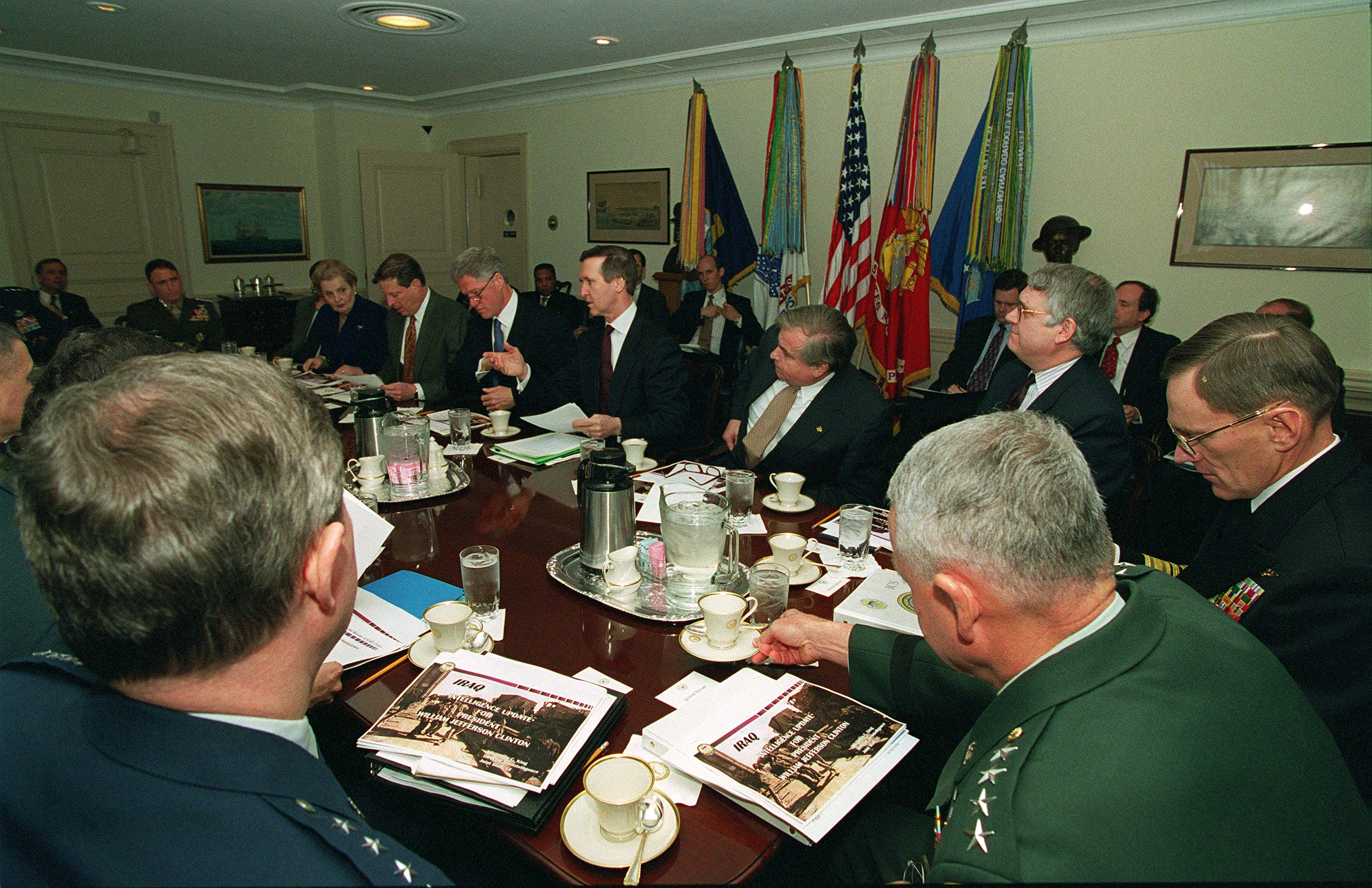 Secretary of Defense William S. Cohen (center) gives the opening remarks at a Pentagon briefing for President Bill Clinton on Feb. 17, 1998. Clinton is in the Pentagon to meet with the Joint Chiefs of Staff and his national security advisors for a Gulf region update. From left to right; Secretary of State Madeleine Albright; Vice President Al Gore; President Clinton; Cohen; National Security Council Advisor Sandy Berger; Deputy Secretary of Defense John J. Hamre.